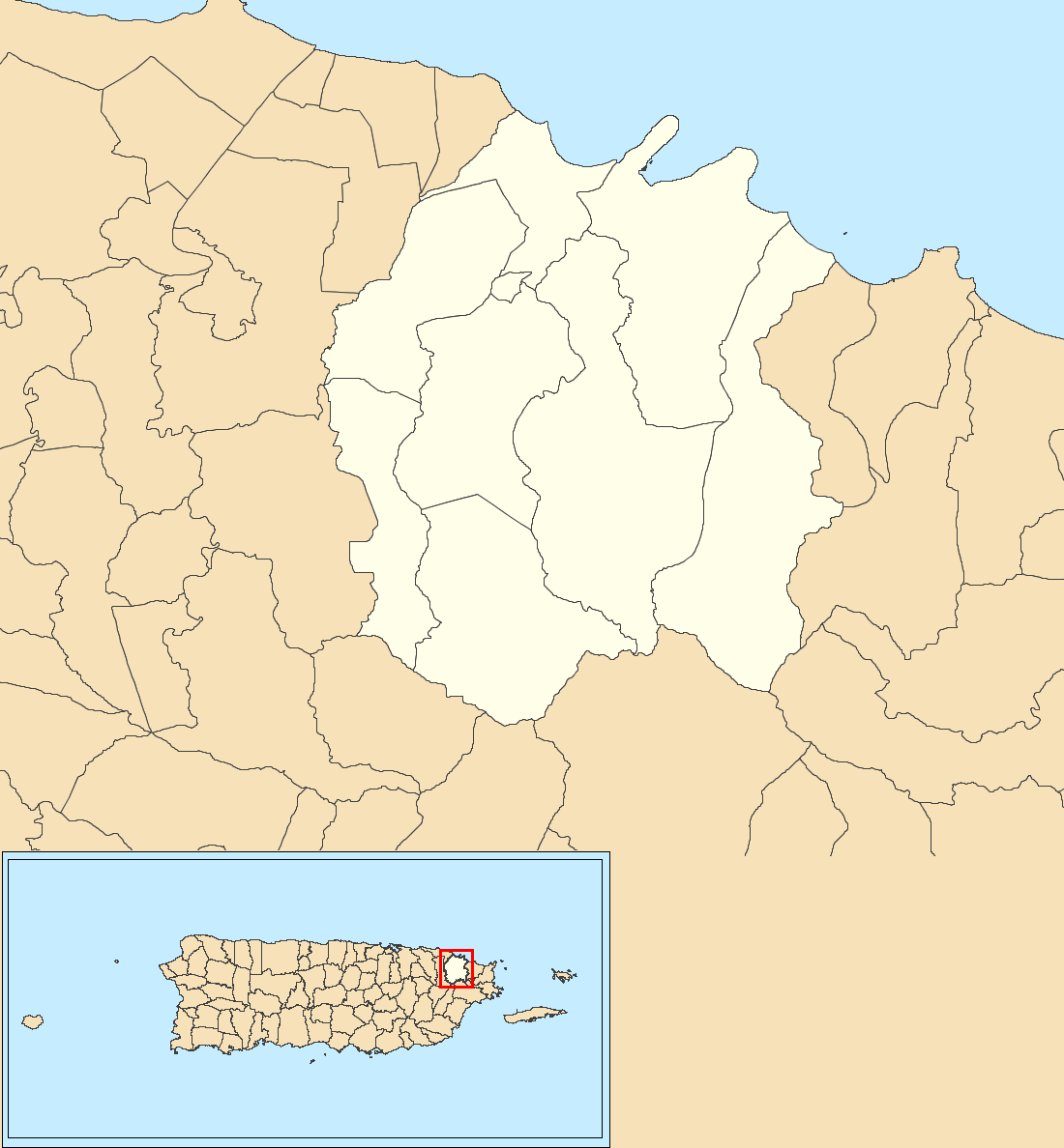 Barrios in the municipality. Map scale is 1:200,000